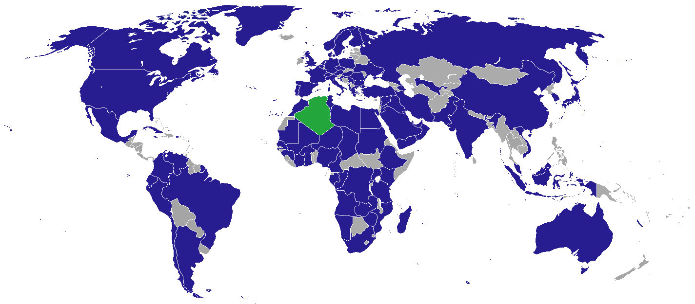 Diplomatic missions of Algeria as of 2017